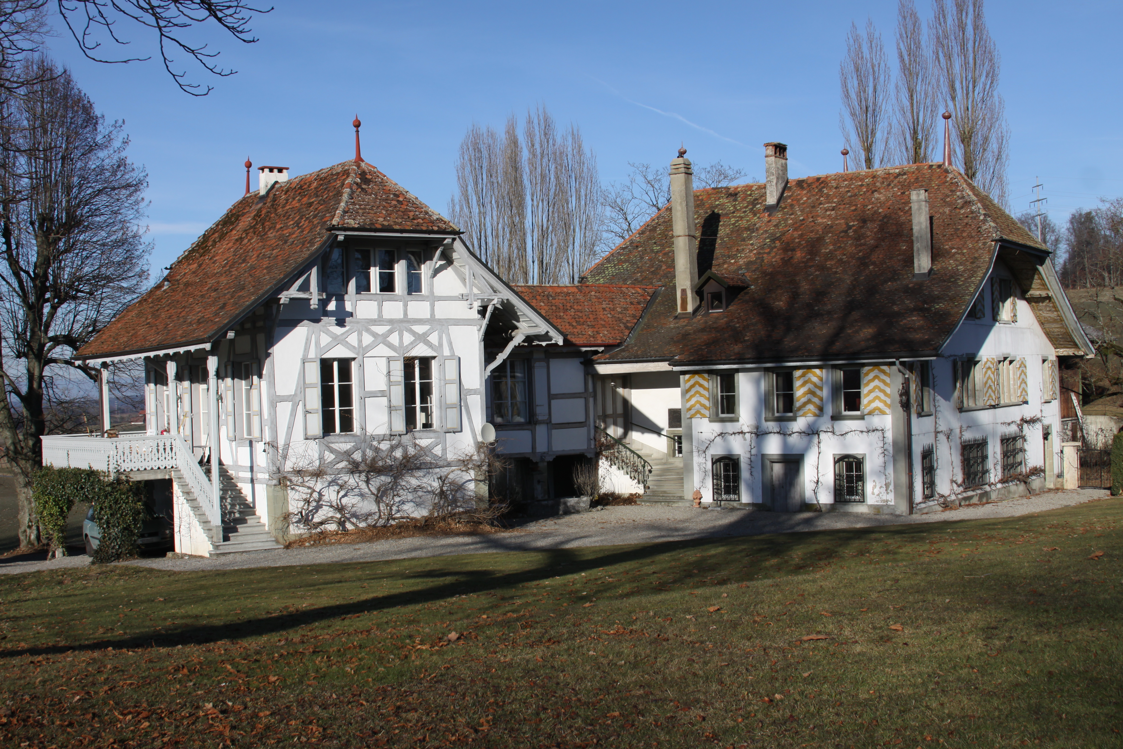 Montenach Country Estate, Balliswil 3 & 5, Balliswil